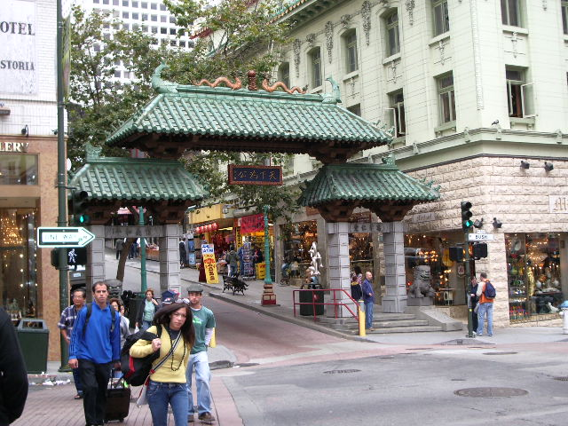 China Town de san Francisco